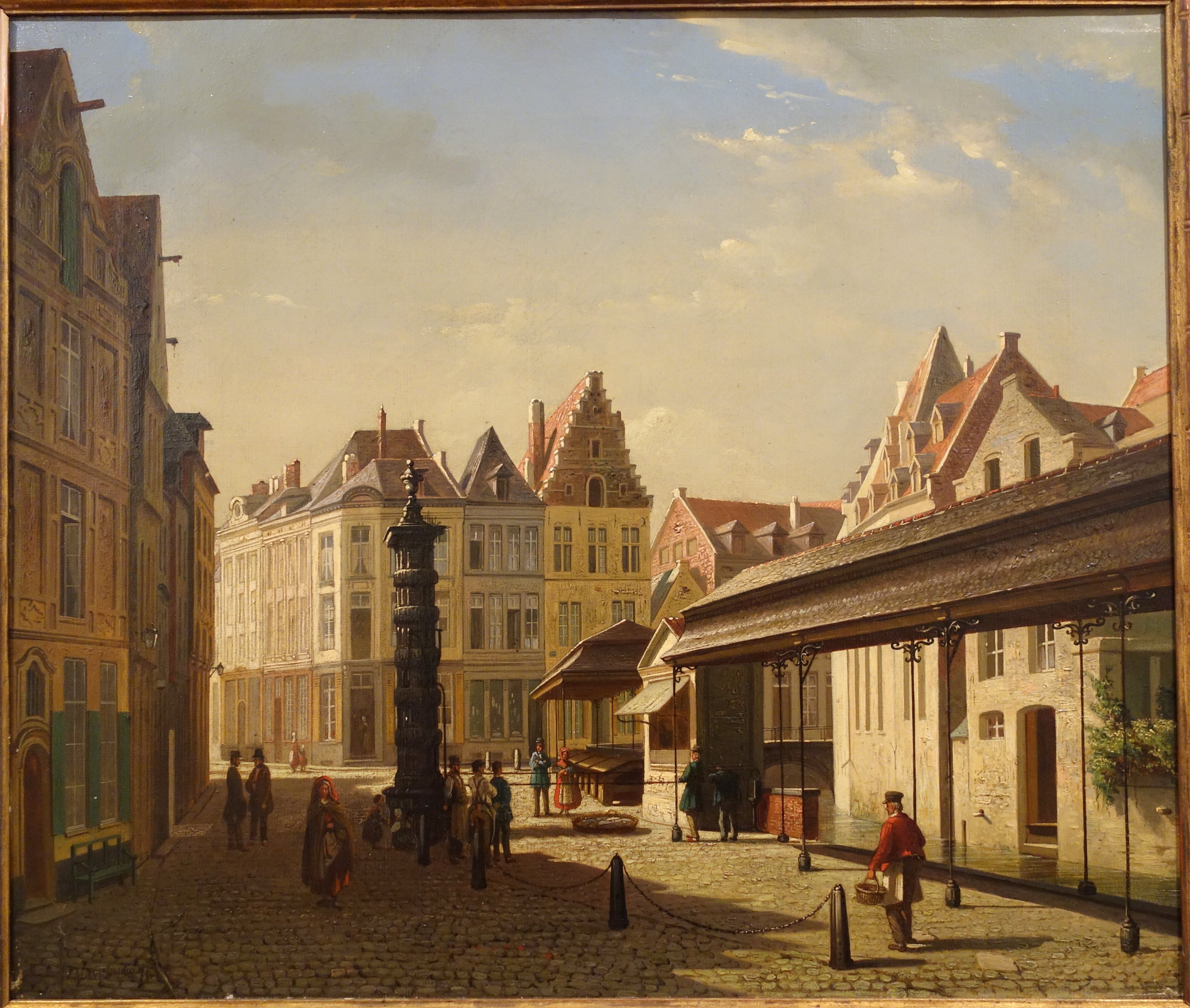 Exhibit in the Museum M - Leuven, Belgium. This artwork is in the public domain because the artist died more than 70 years ago.